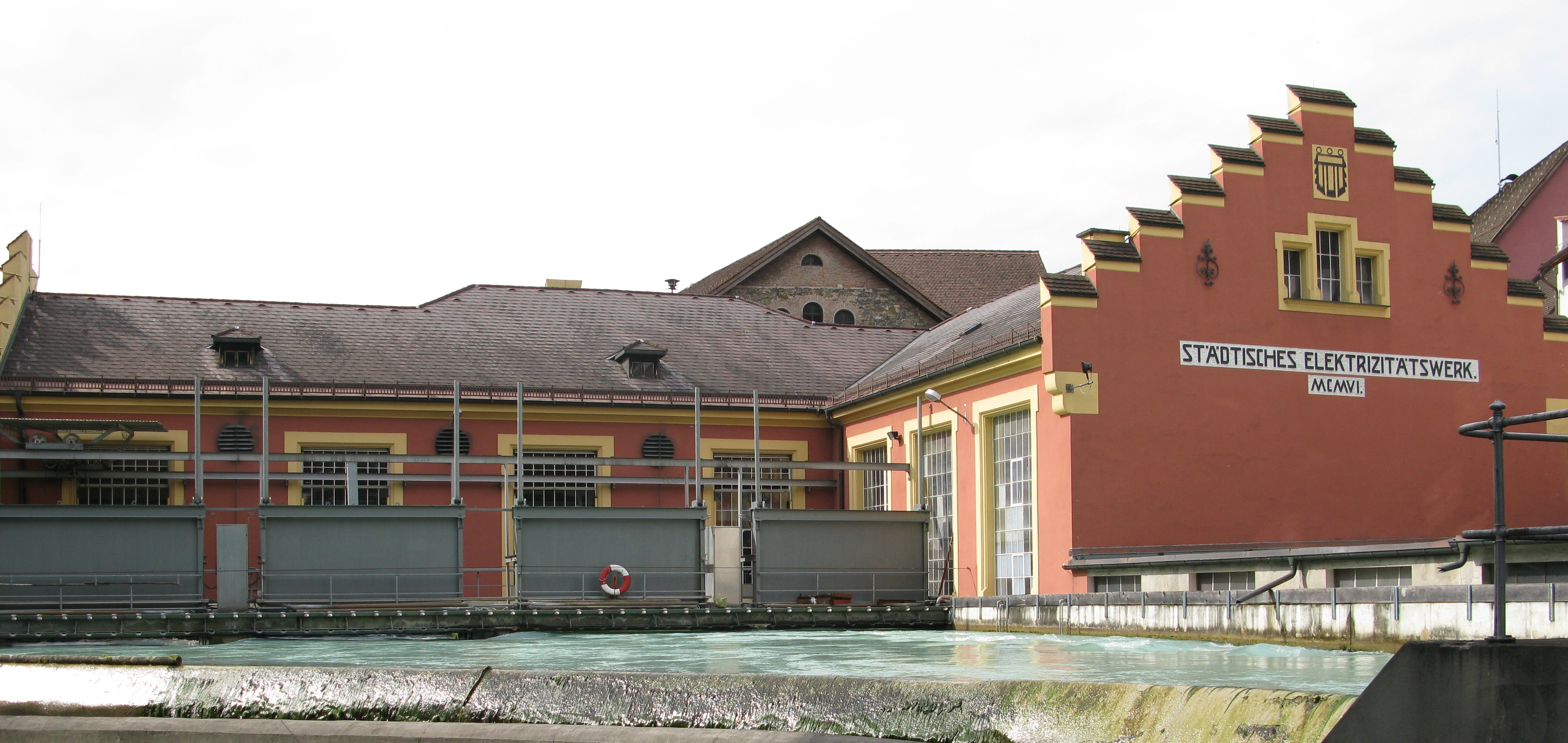 The water power plant of Feldkirch.